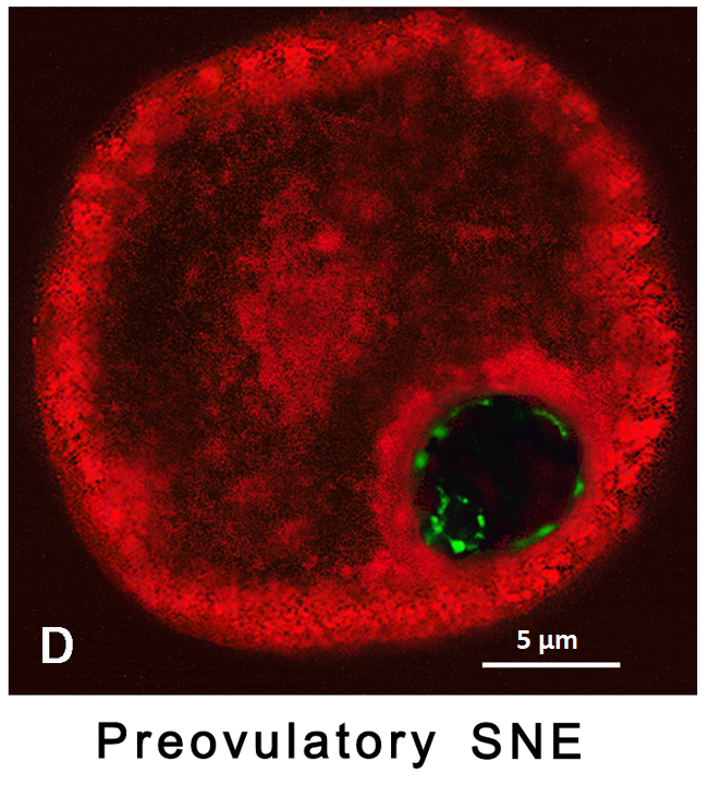 7.D. Examples of Oocyte Telomerase catalitic subunit (TERT) distribution, visualized with Cy3-conjugated secondary antibody (red), while DNA was counterstained in green with SYBR Green 14/I. TERT sub-cellular localization was influenced by chromatin configuration in all in vitro and in vivo classes of germ cells analyzed. (D) Oocyte of a preovulatory follicle with condensed chromatin localized surrounding the nucleolus and the nuclear envelope (SNE configuration) and with a clear subcortical and perinuclear cytoplasmatic TERT distribution. Scale bar = 25 µm.